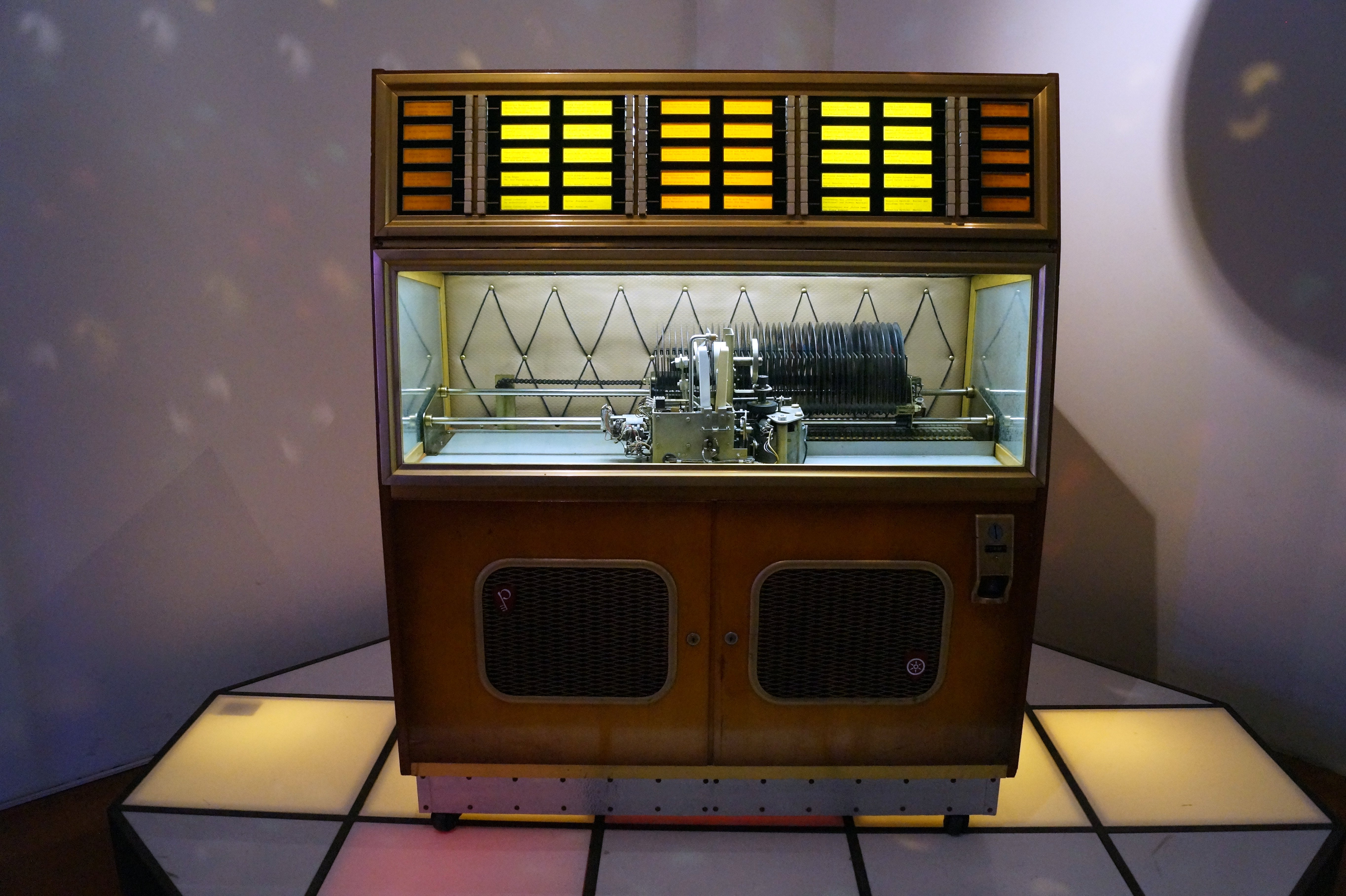 jukebox type 80C Polyhymat, made in gdr